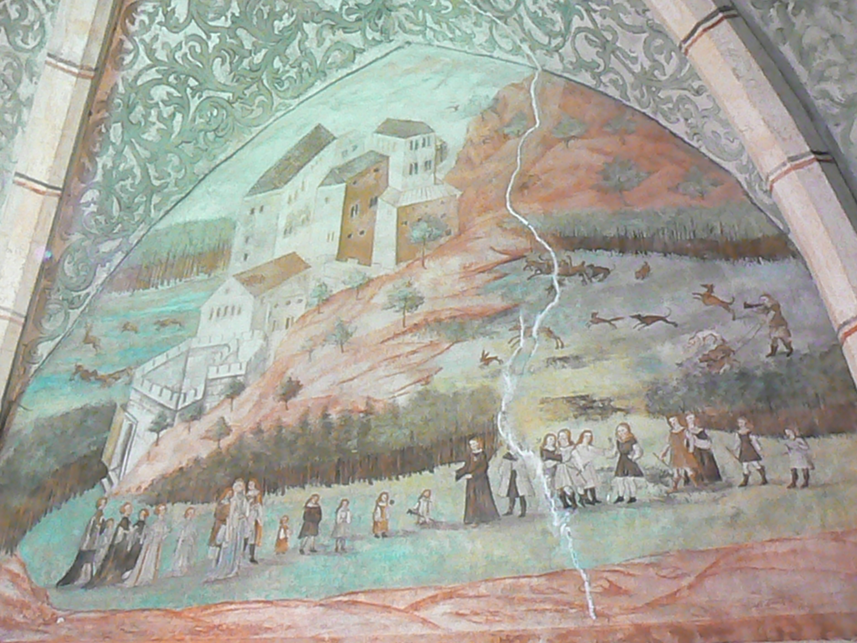 Houska Castle, Česká Lípa District, Liberec Region, the Czech Republic. Green Room, a renaissance fresco "A welcome of suite of Saint Ludmila".